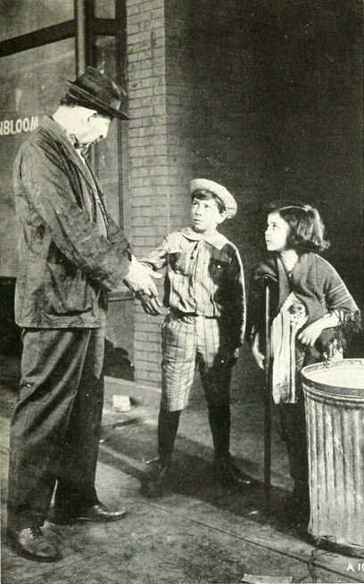 Still from the American film Humoresque (1920). L-R, unidentified man with child actors Bobby Connelly and Miriam Battista, on page 157 of Motion Picture Directing; The Facts and Theories of the Newest Art (1922) by Peter Milne.